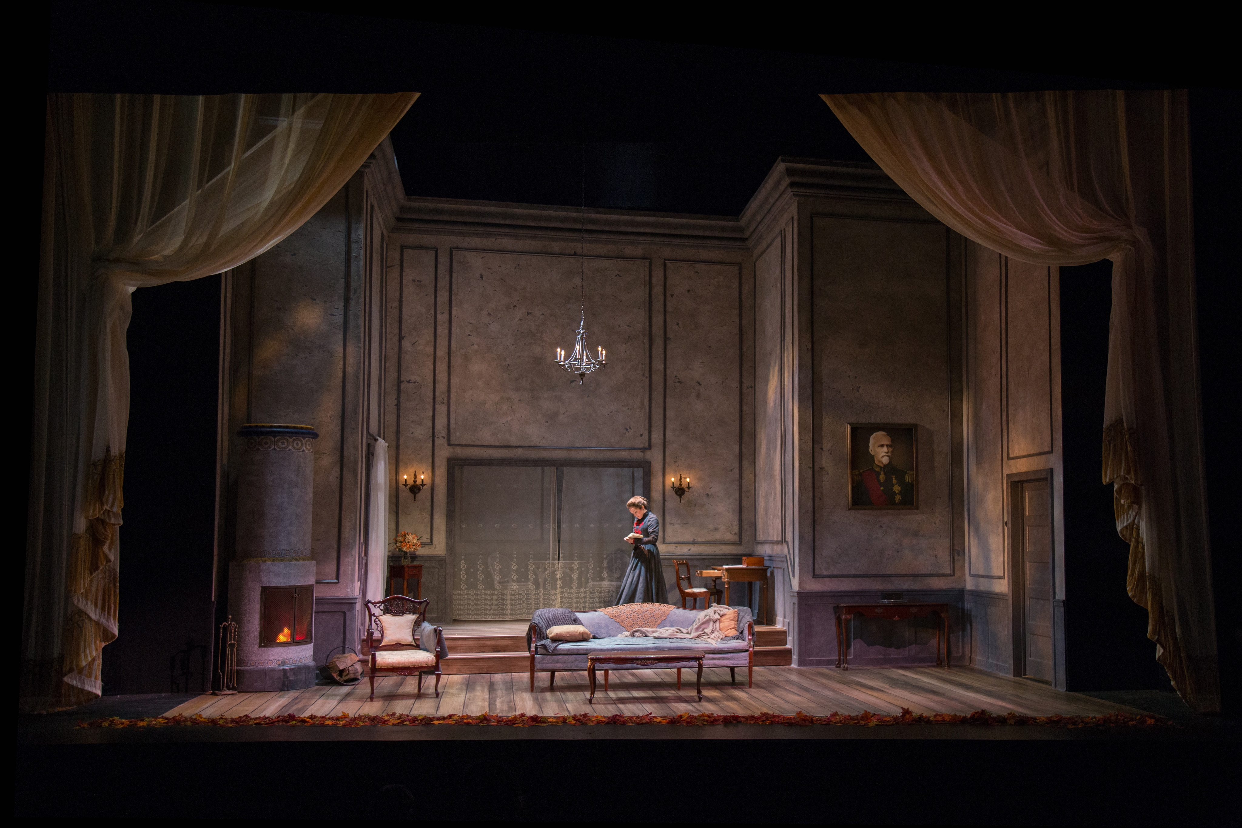 Hedda Gabler Scenic Design by Kristen Martino for Ruth N. Halls Theatre at Indiana University.